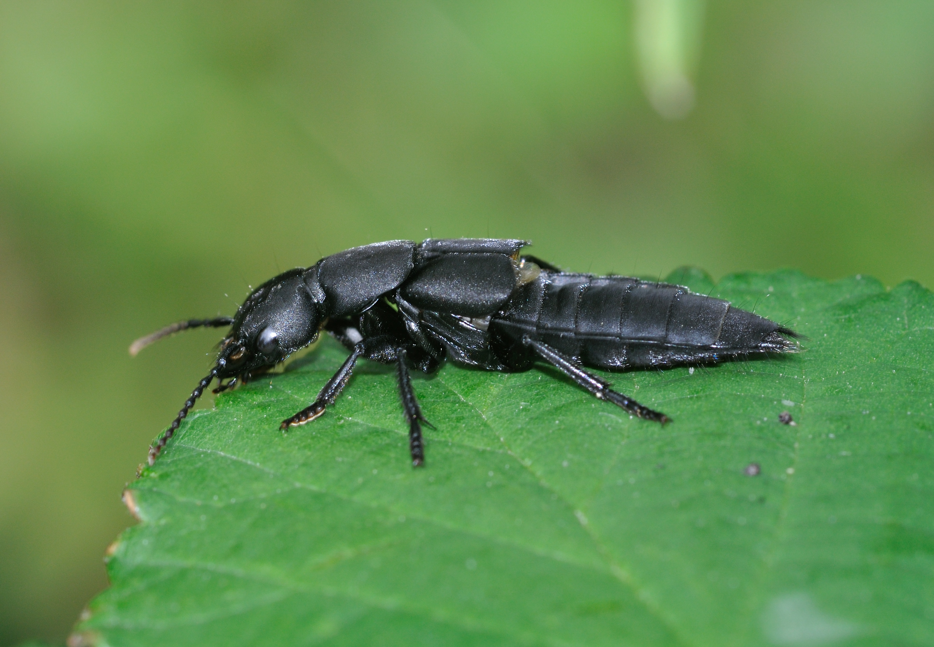 Devil's Coach Horse Beetle (Ocypus olens) in Oberursel, Germany.